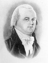 Joseph Anderson taken from the US Congress Biographical Directory.